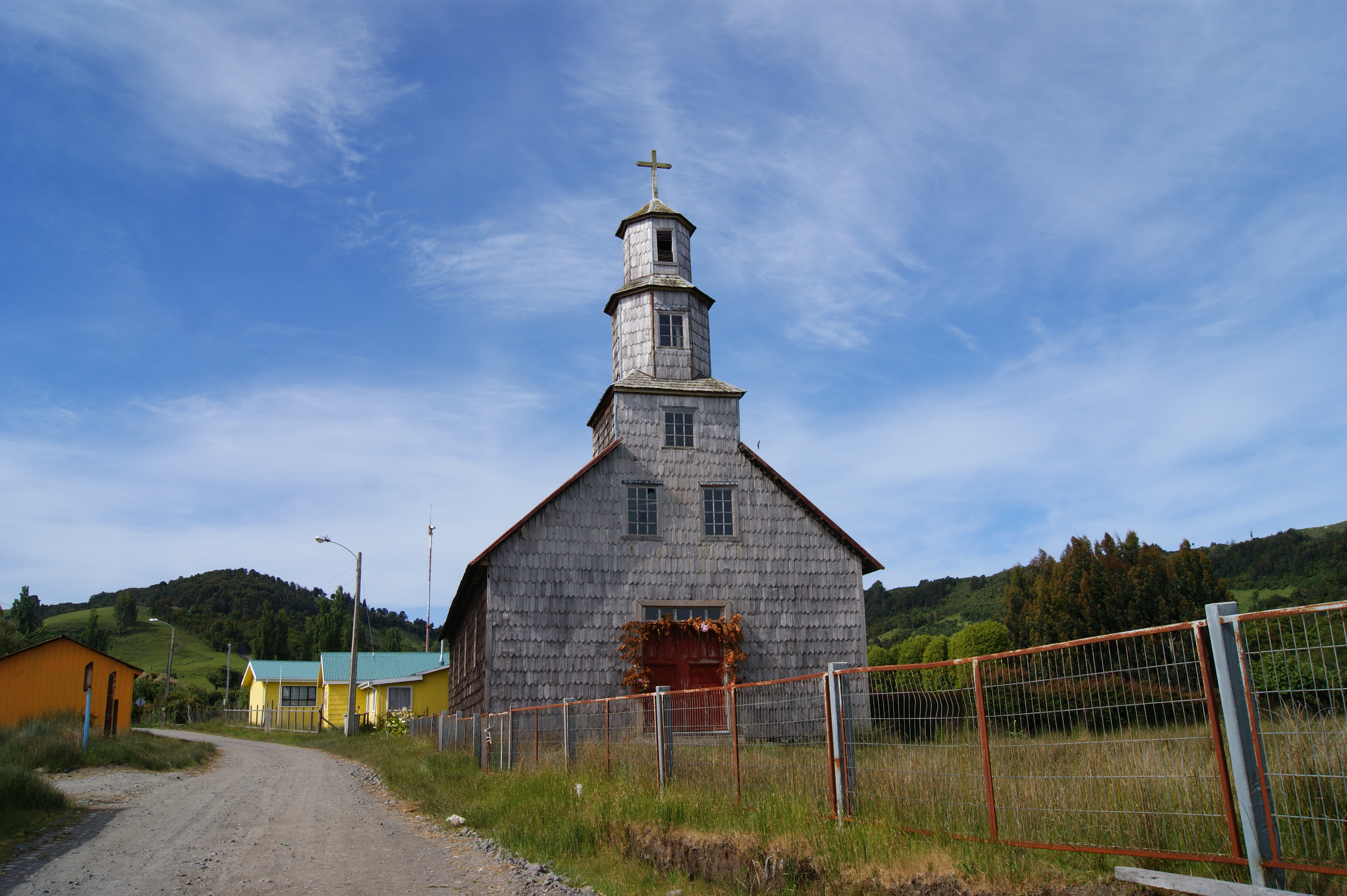 Jesuit church on Chiloe Island, Chile - November 2016